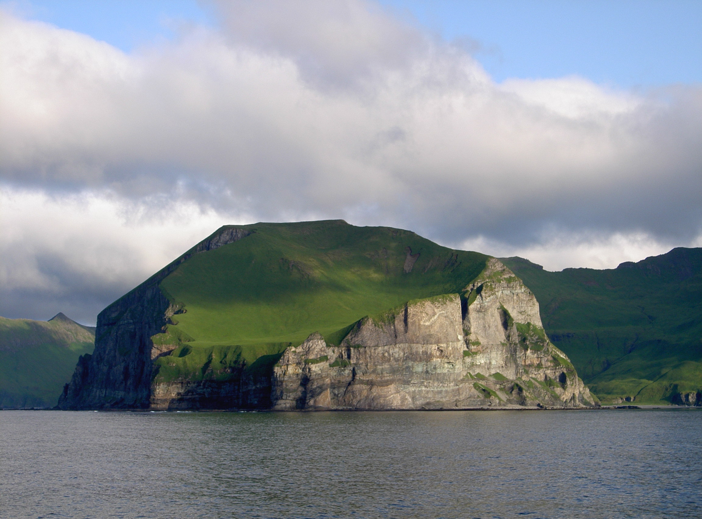 "Cape Promontory, Cape Lutkes, Alaska. Cape Lutkes is part of the Aleutian Islands." – Cape Lutke, a landhead at the southern central coast of Unimak Island, Aleutian Islands, Alaska.